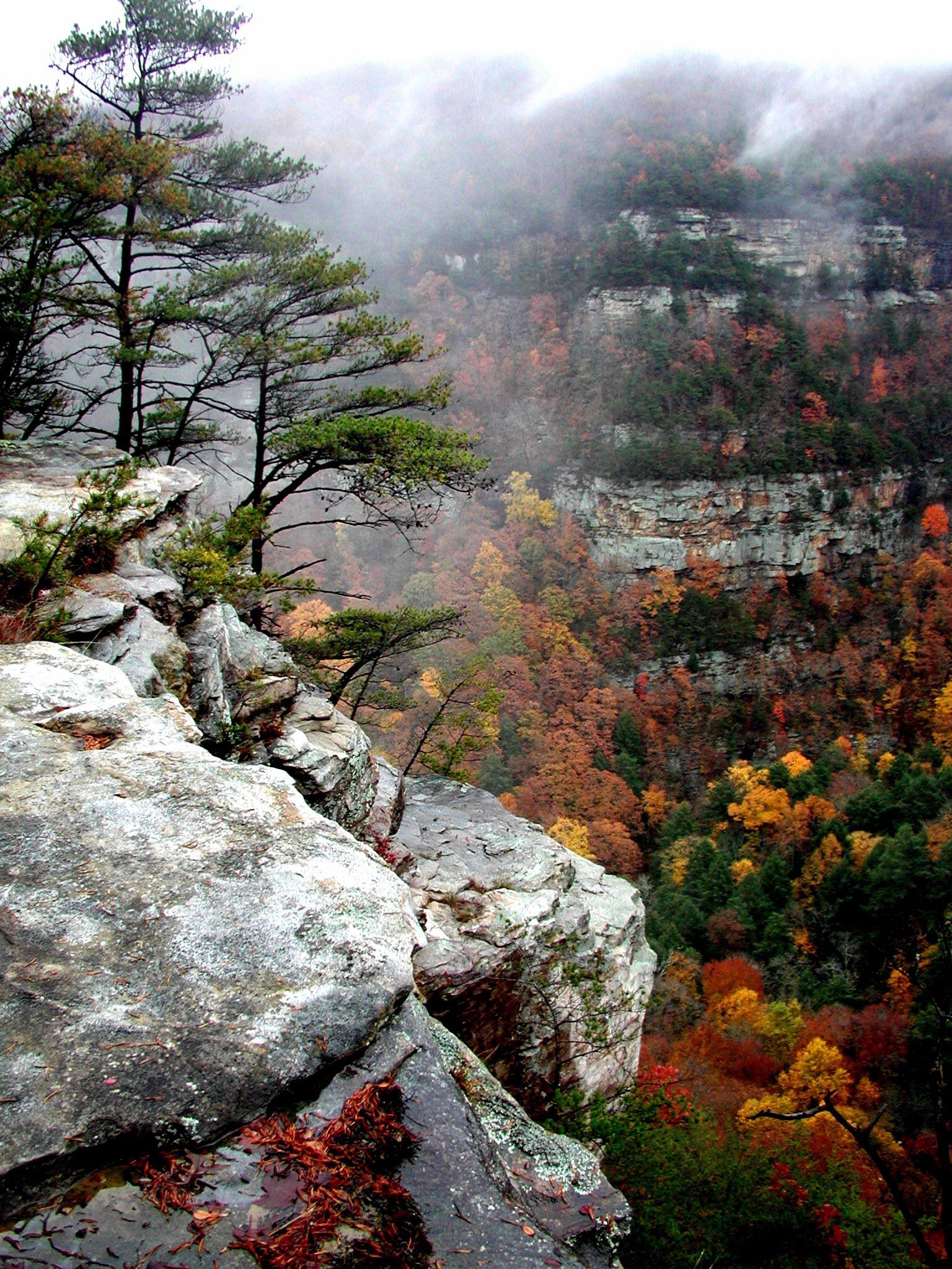 Photo by R. McClenny